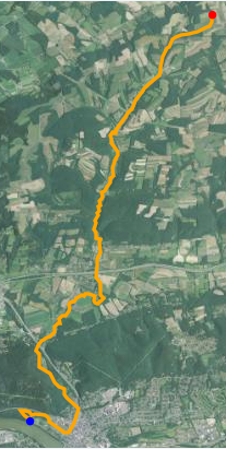 Satellite map of Mahoning Creek . The red dot is the stream's source and blue dot is its mouth. Data available from U.S. Geological Survey, National Geospatial Program.